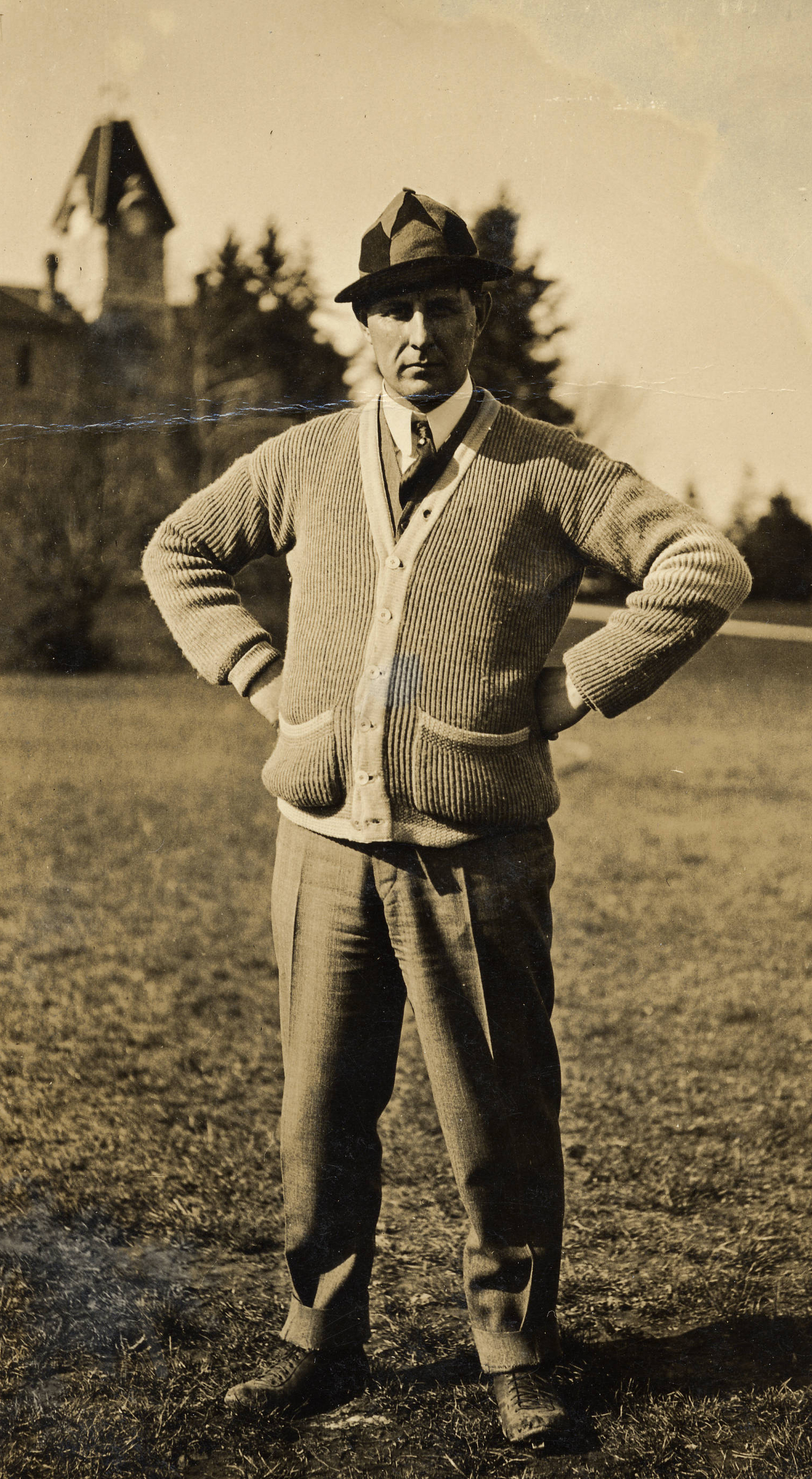 Fielder Jones, baseball player and coach. Benton Hall is behind, at left.